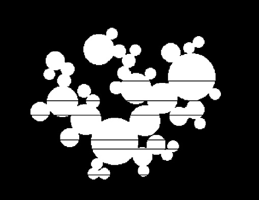 Image filtered by the logical filtration